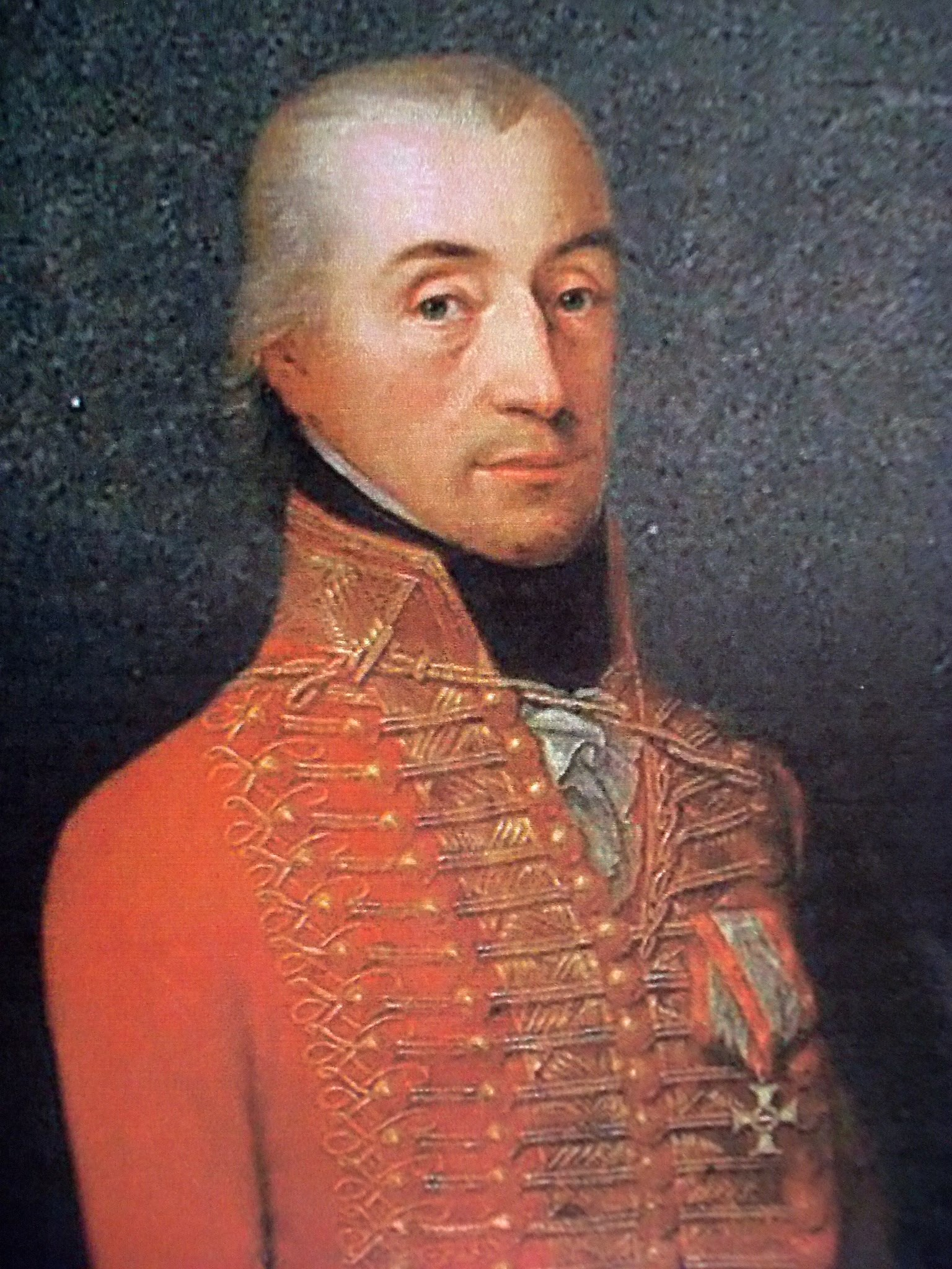 Baron Vinko Knežević /Vincent Knezhevich/ (1755-1832), Croatian nobleman and general of the Habsburg Monarchy imperial armyHrvatski: Vinko barun Knežević (1755-1832), hrvatski plemić i general carske vojske Habsburške Monarhije